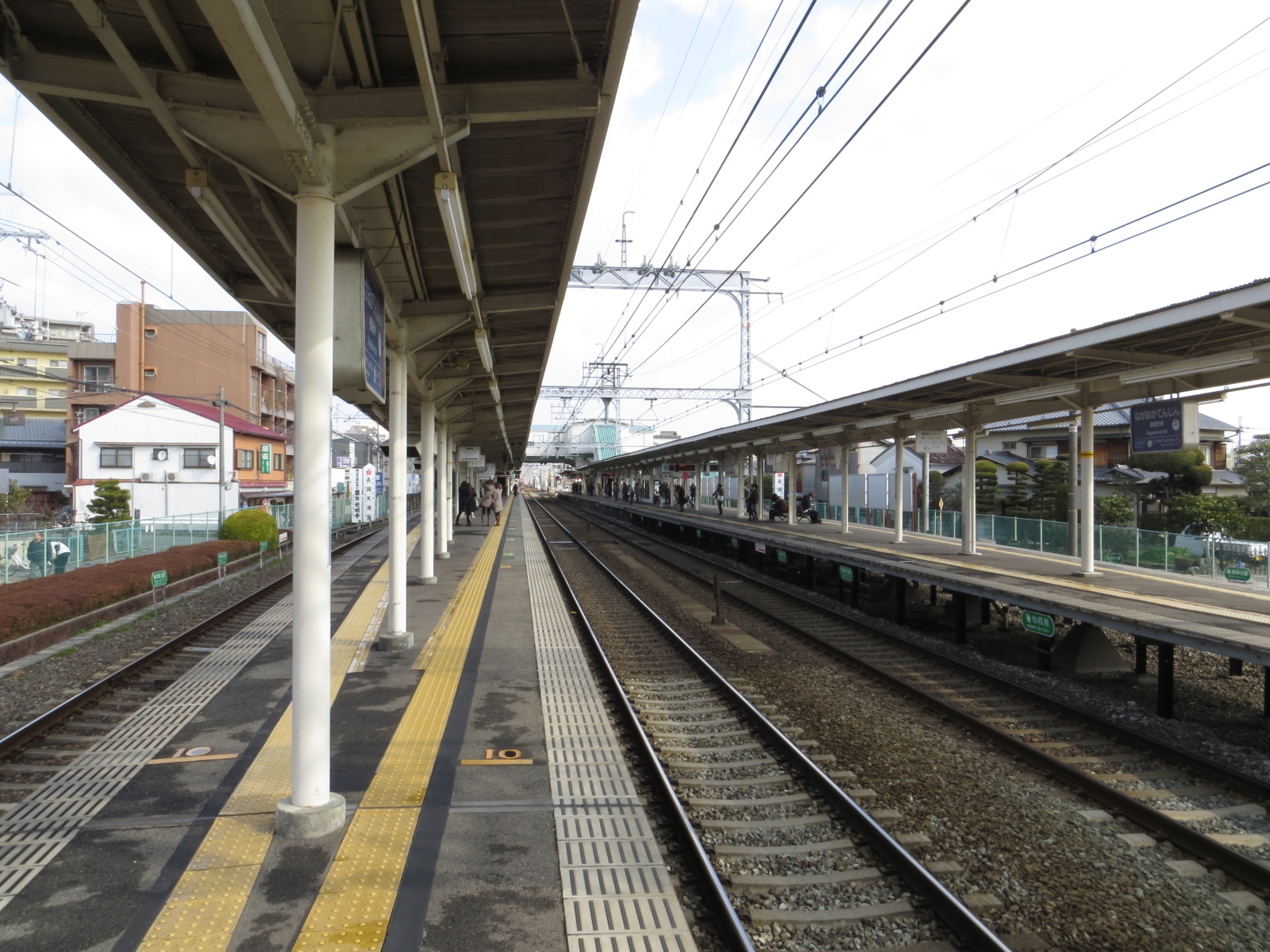 Platform from Nagaoka-tenjin Station (HK77).